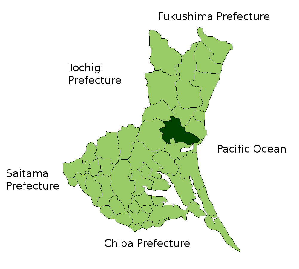 Location Map of Mito in Ibaraki Prefecture, Japan